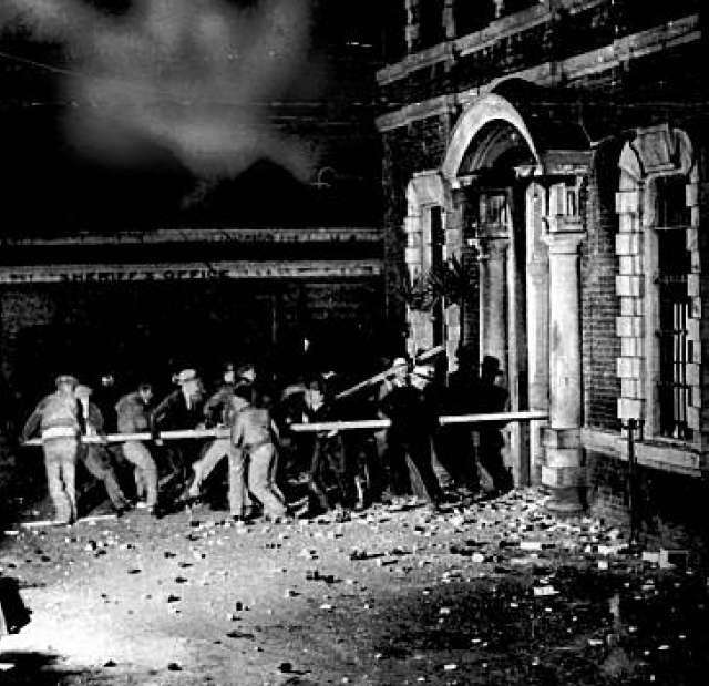 A lynch mob taking a battering ram to the doors of the San Jose jail soon before they lynched the killers of Brooke Hart.